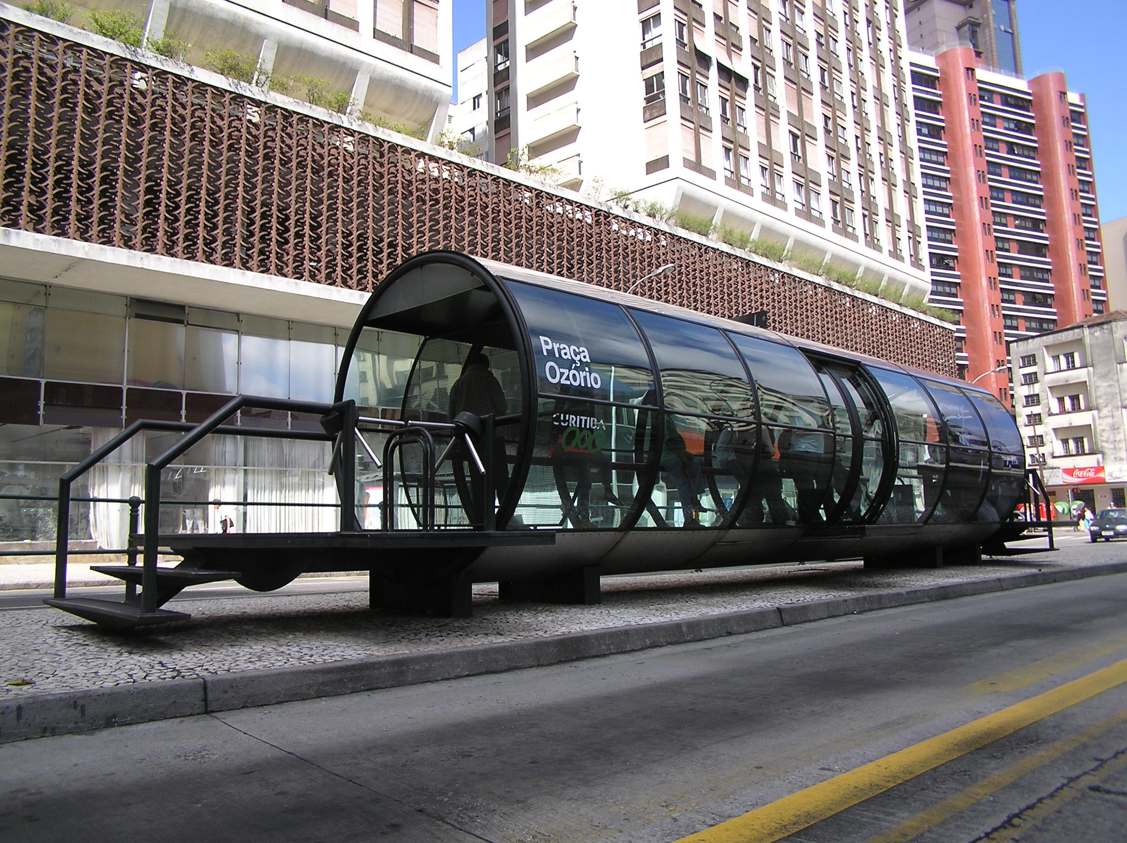 Bus Stops